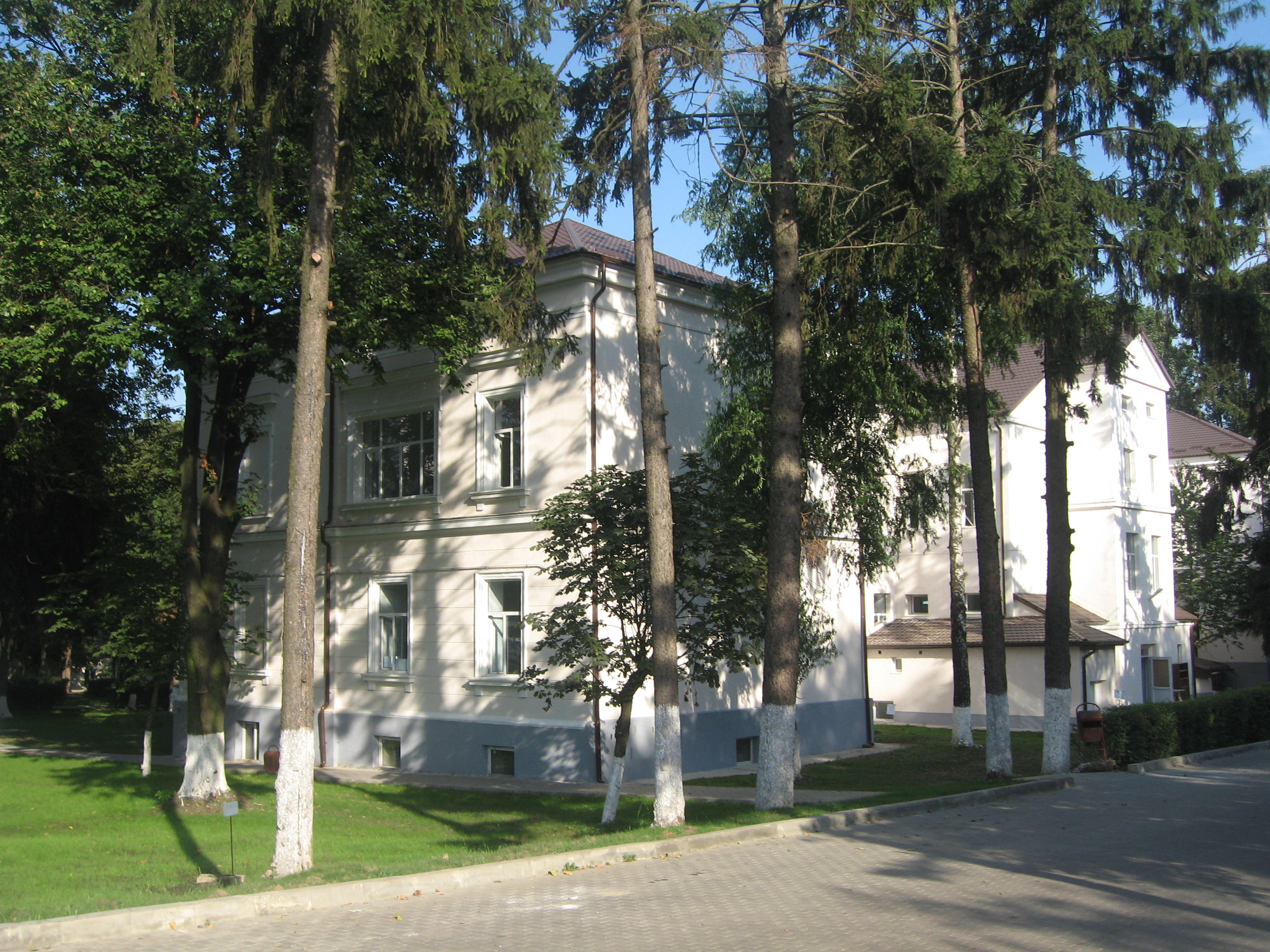 The Old Hospital in Suceava.